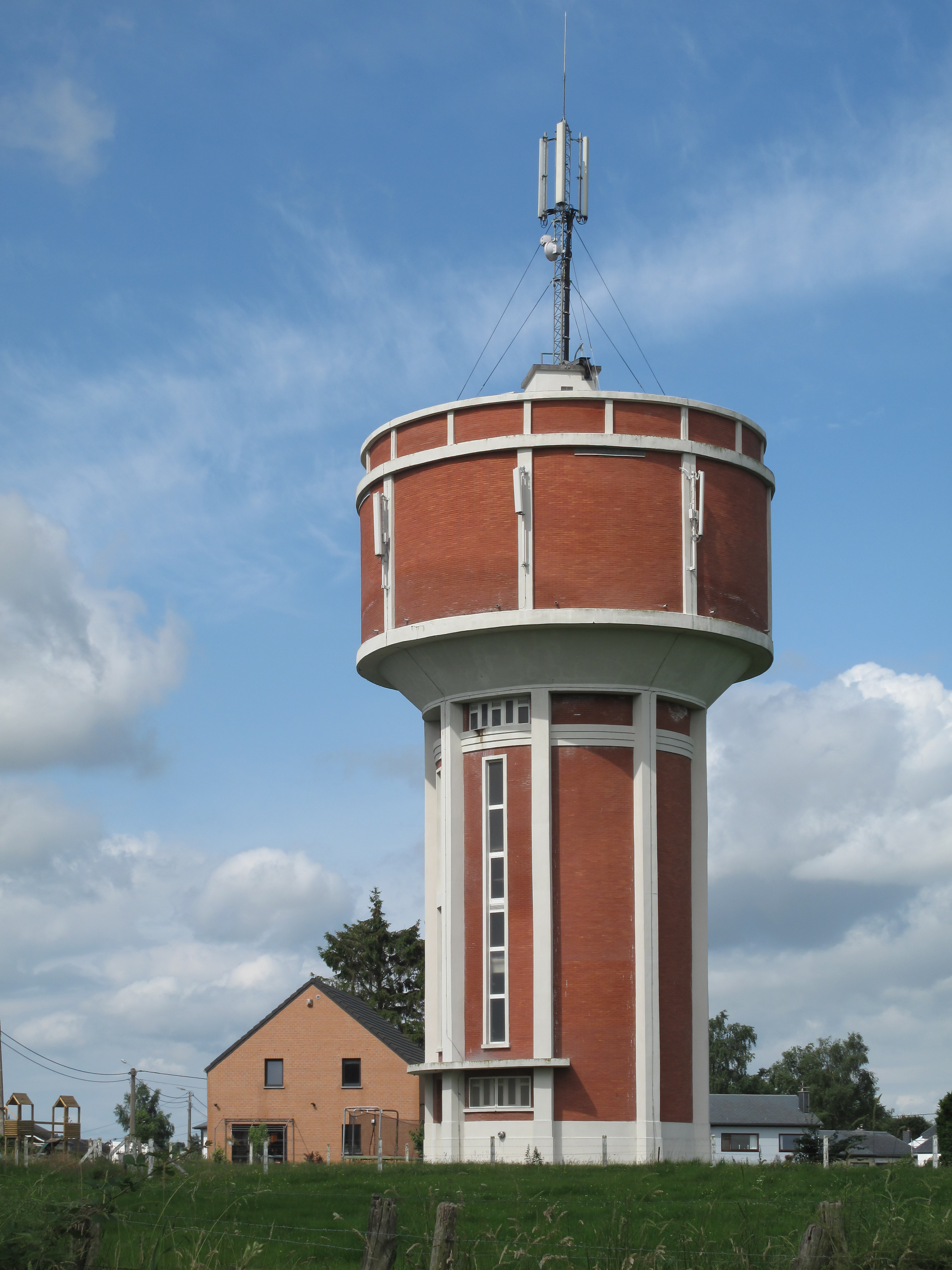 Vezin, watertower